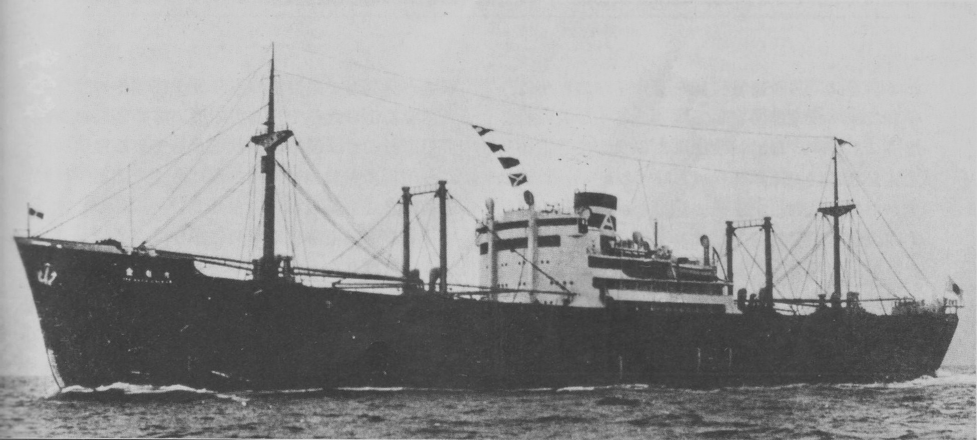 Kokusai Line "Kinryu Maru", Auxiliary cruisers of the Imperial Japanese Navy.